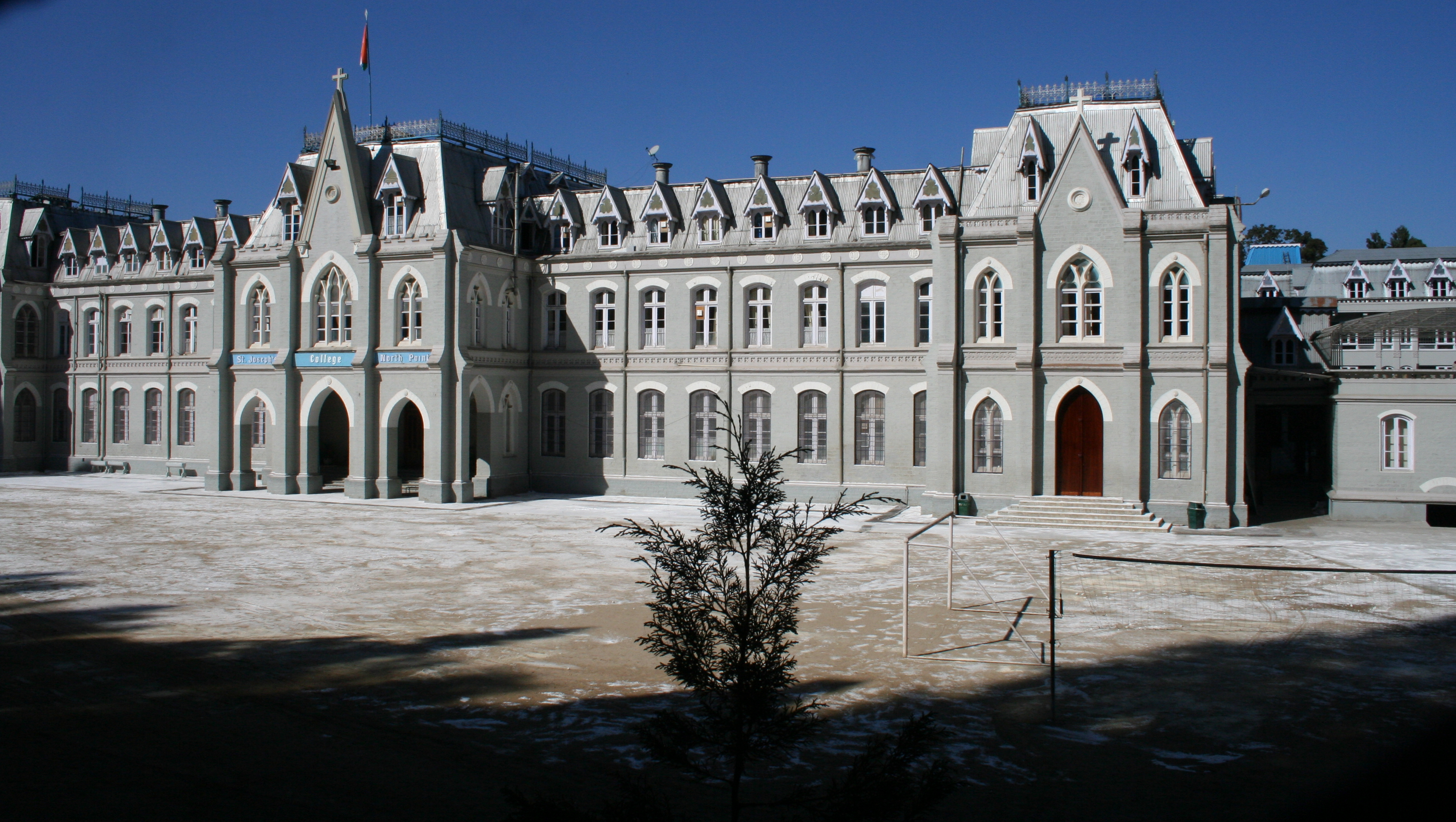 St. Josephs College, North Point, Darjeeling